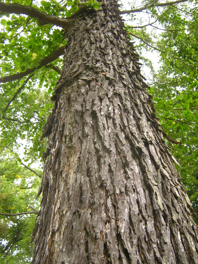 Corylus colurna